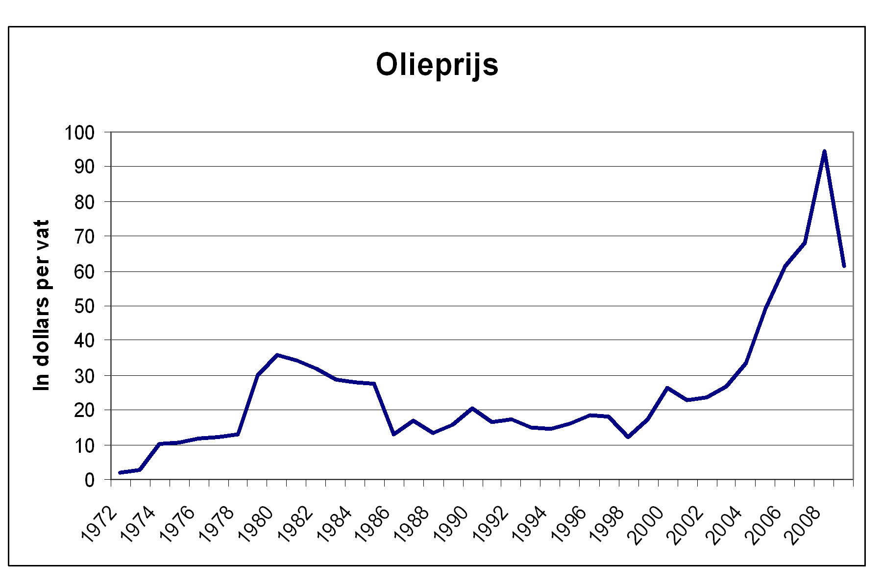 Oil price development between 1975-2009. Source: BP Statistical Review of World Energy June 2010, page 16, Dubai Oil